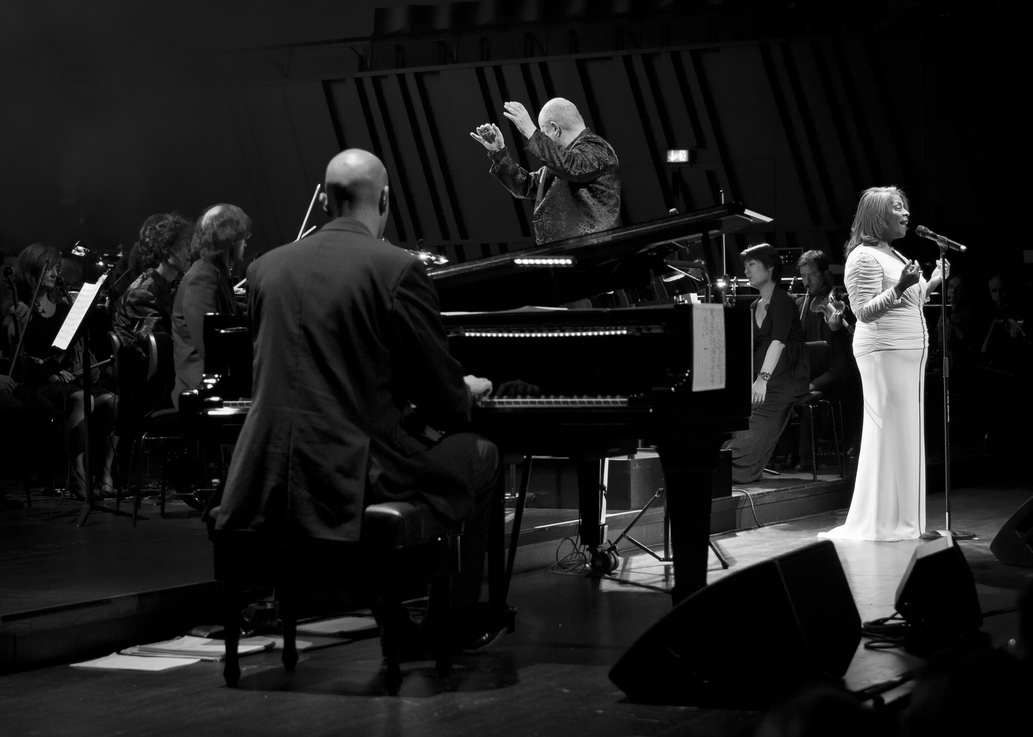 Patti Austin & the Orchestre National de Jazz @ Philharmonie de Luxembourg